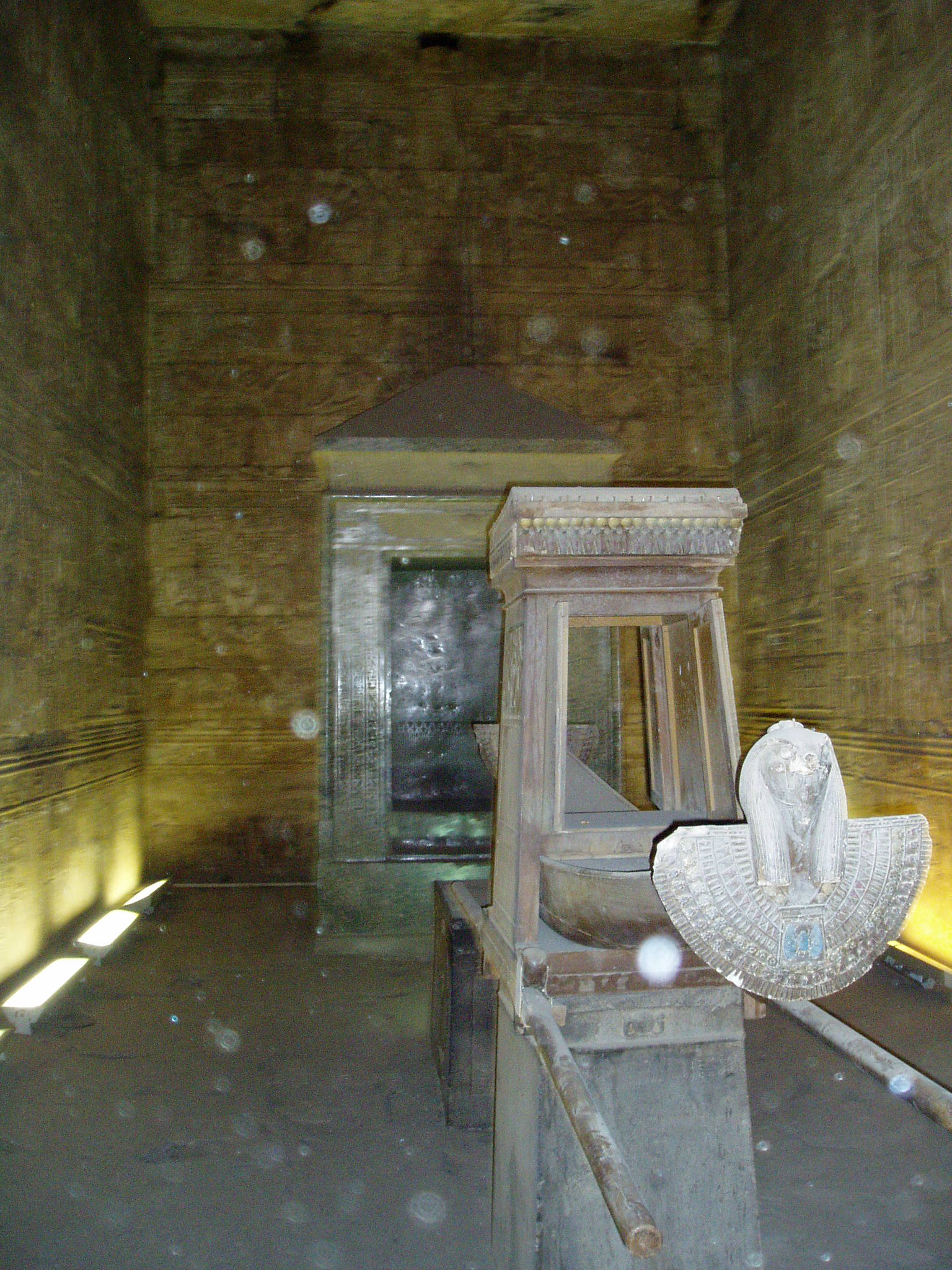 center room in Edfu, Egypt